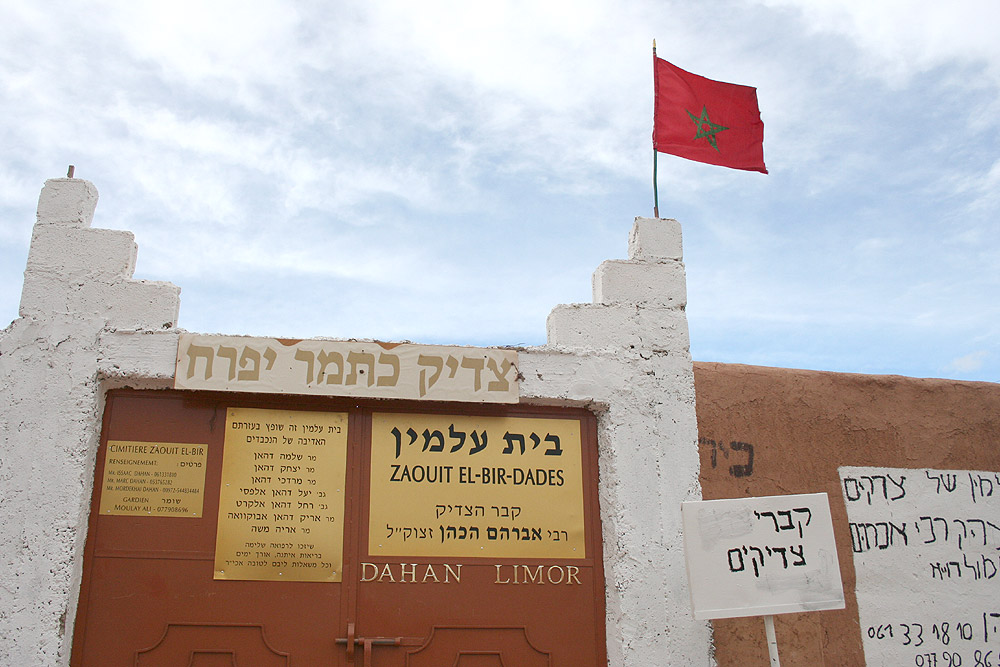 Zaouit el Bir Dades Jewish Cemetery, Ouarzazate Province, Morocco.